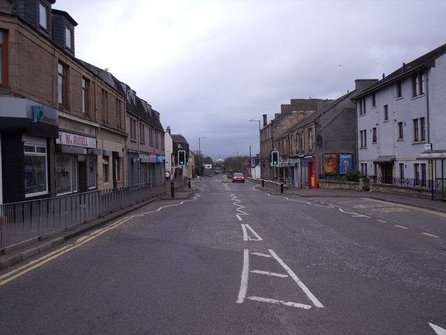 Laurieston looking west towards Falkirk along the A803 (formerly the A9) road